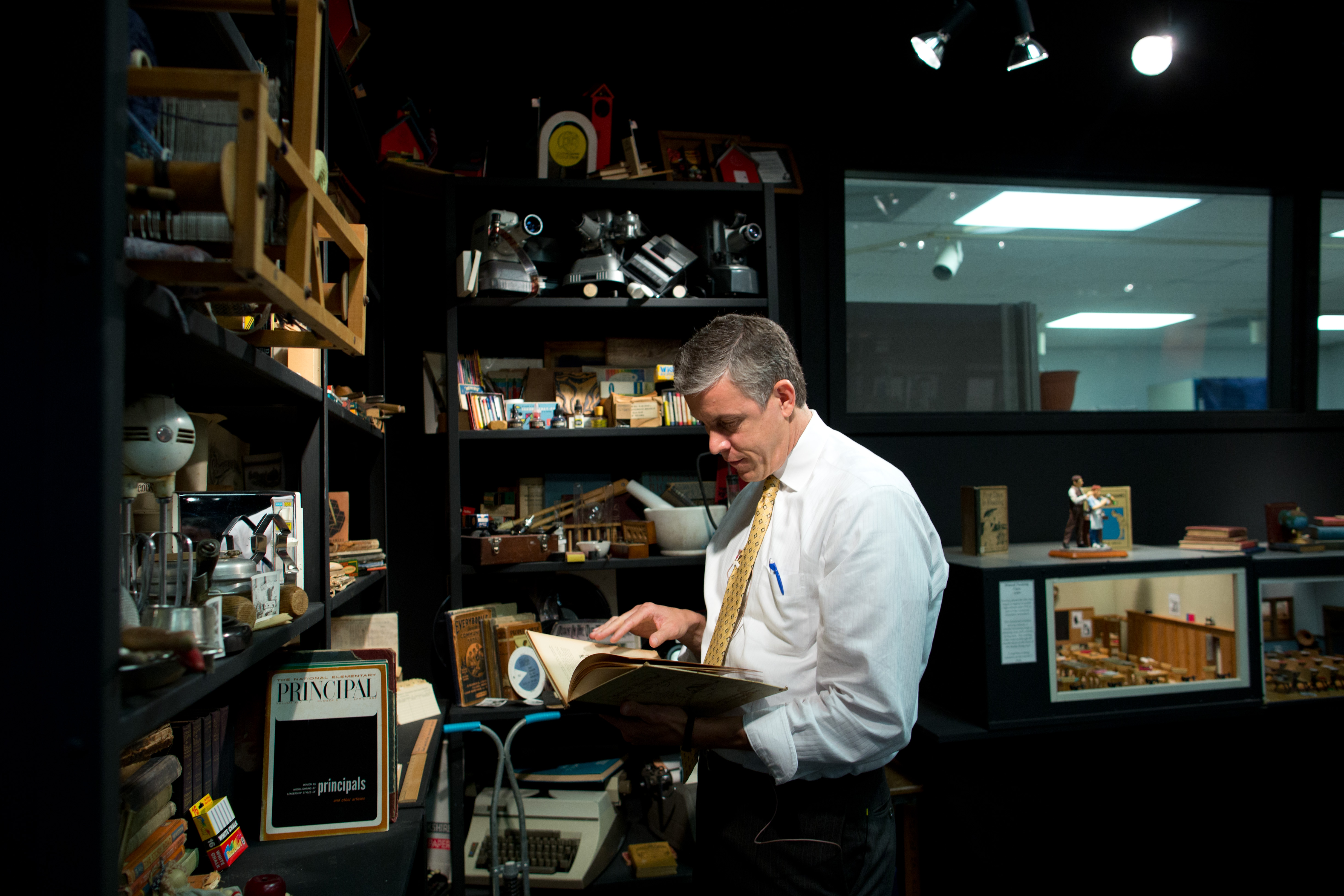 Education Secretary Arne Duncan looks at a copy of "Helpful Hints for the Rural Teacher" while visiting an exhibit in the National Teacher Hall of Fame at Emporia State University in Emporia, Kan., Sept. 18, 2012. (Official White House Photo by Chuck Kennedy